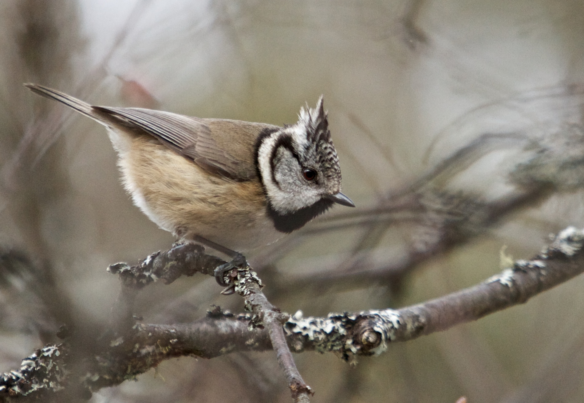 A favourite endemic of ancient Caledonian pine forest